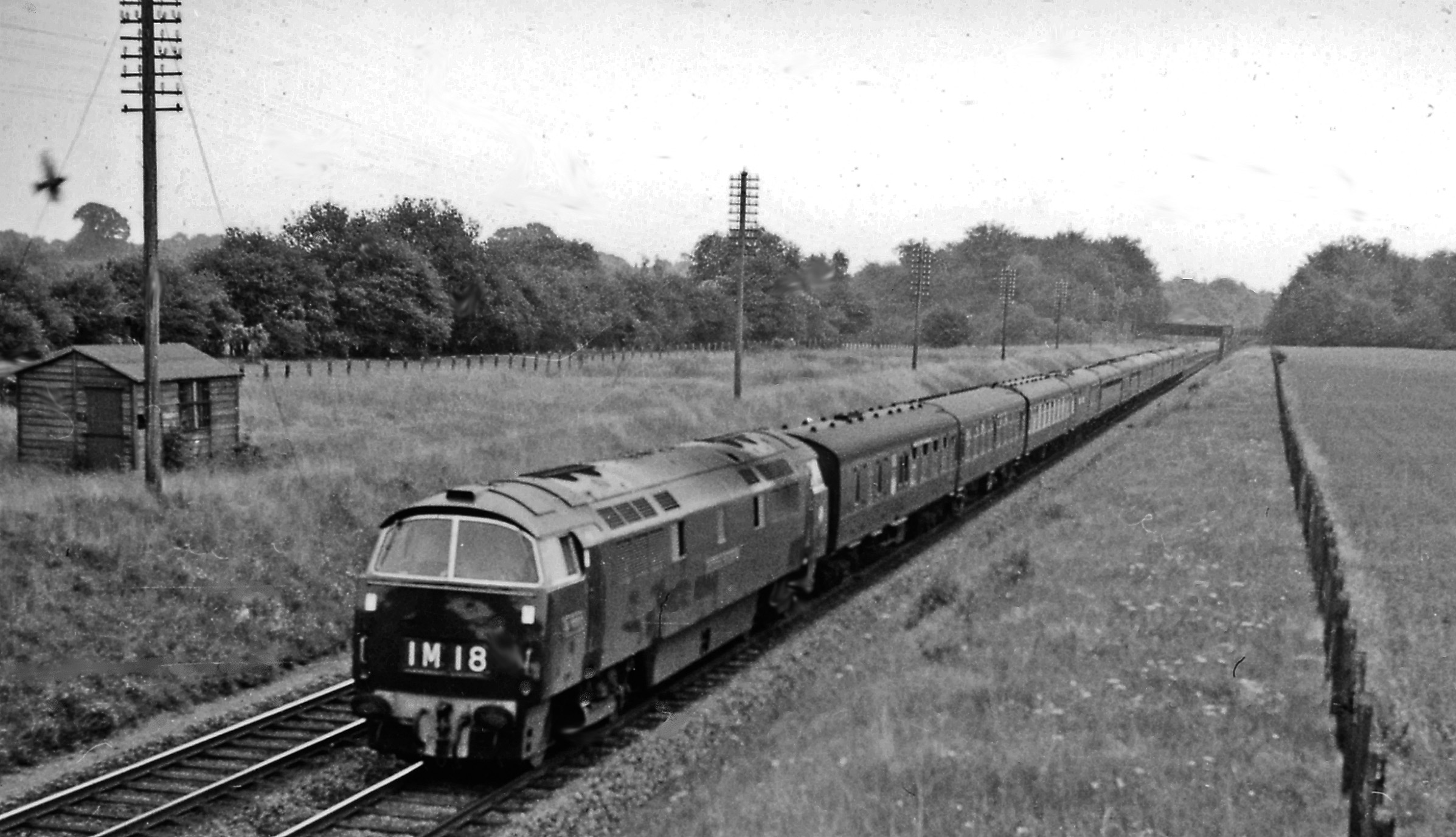 Diesel-hauled express west of Seer Green station. View eastward, towards London Paddington; ex-GWR Paddington - Birmingham main line. The 14.10 Paddington - Birkenhead express now has Type 4 'Western' 2,700hp C-C Diesel-hydraulic No. D1005 'Western Venturer' - brand-new from Swindon.